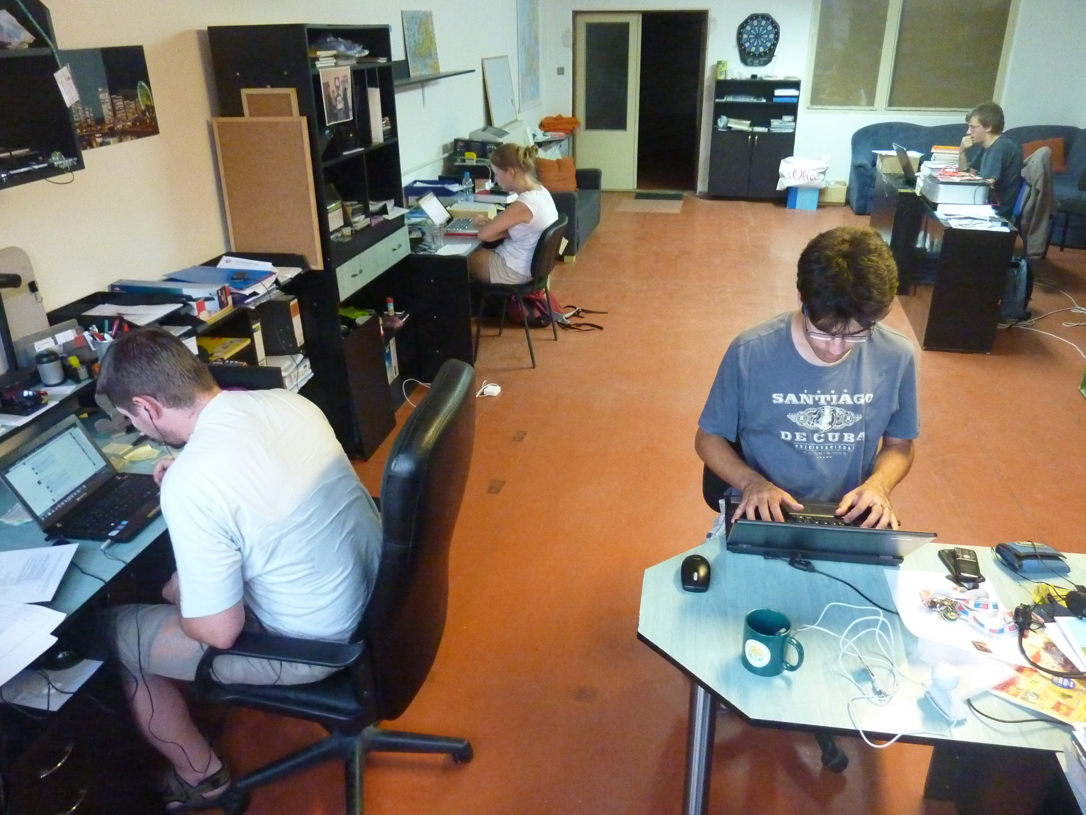 Office of E@I in Partizánske fully occupied on a work day in summer 2011. To the right, out of the picture, the trainee Juan Diego Díaz Bautista cannot be seen.